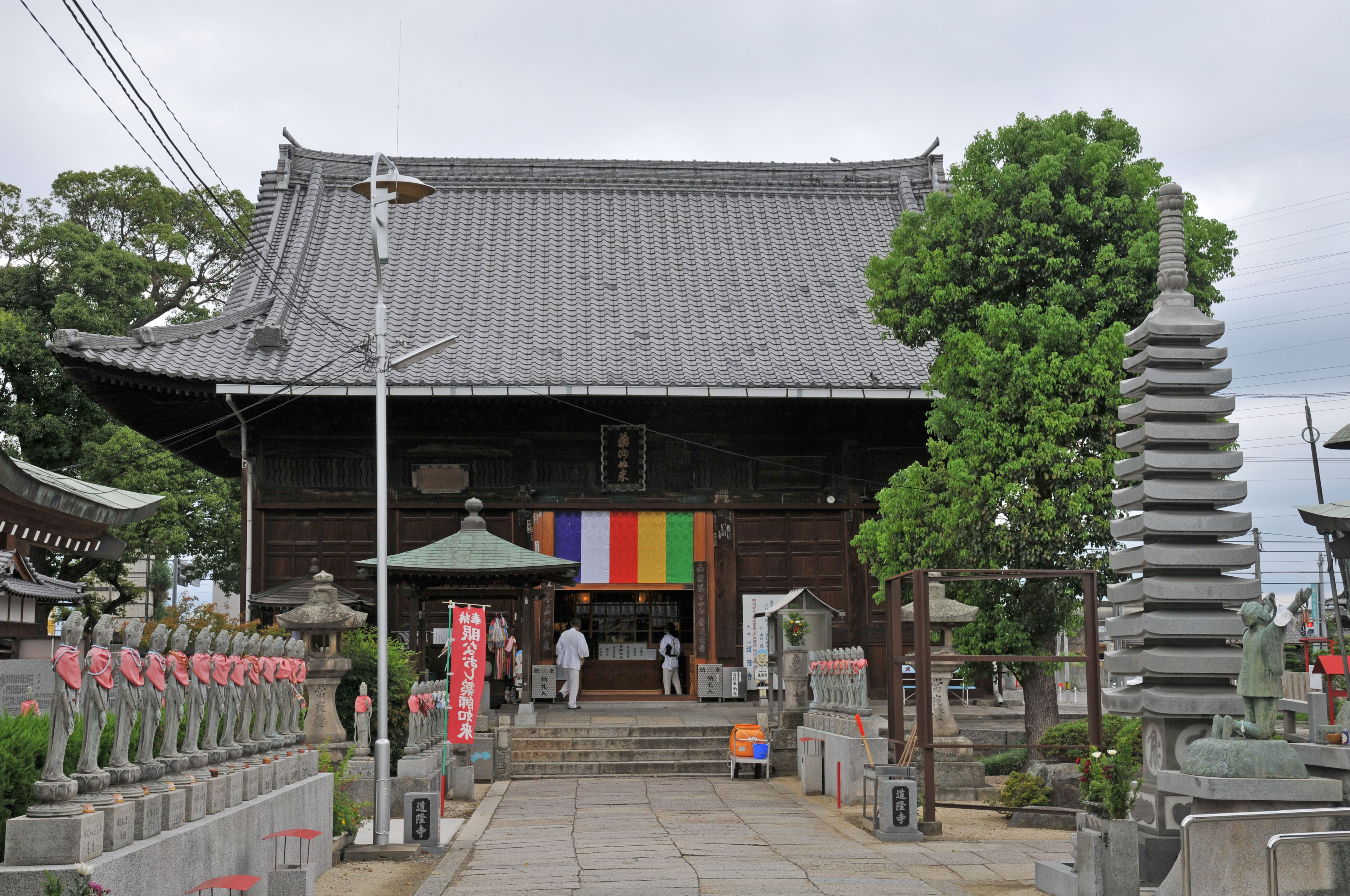 Main temple, Dōryū-ji